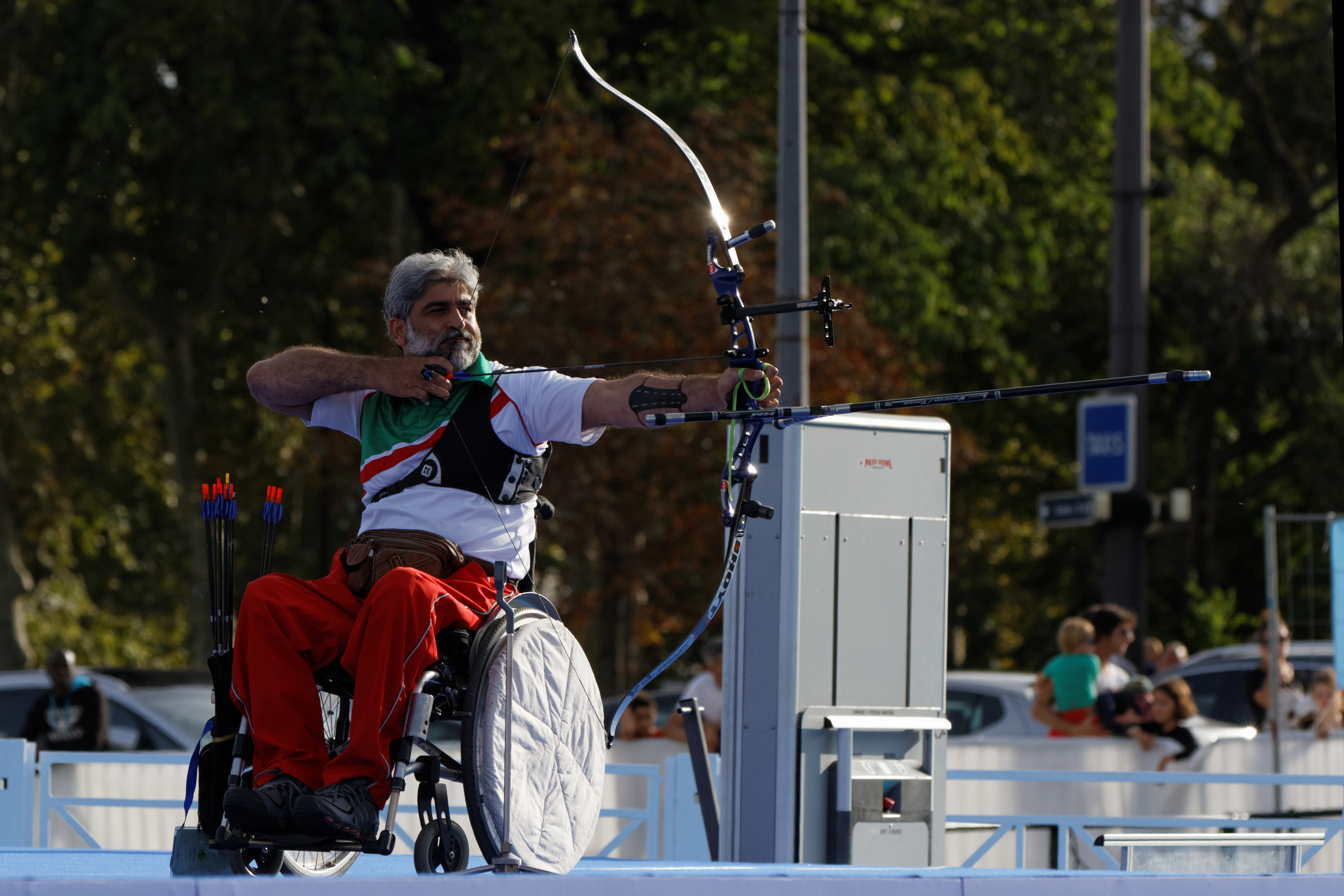 2013 FITA Archery World Cup, Paris, France. Para-archery: Ebrahim Ranjbar Kivaj vs. Armando Cabreira.